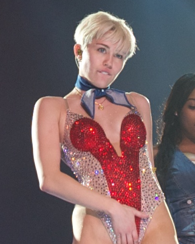 Miley Cyrus performing in Vancouver in 2014